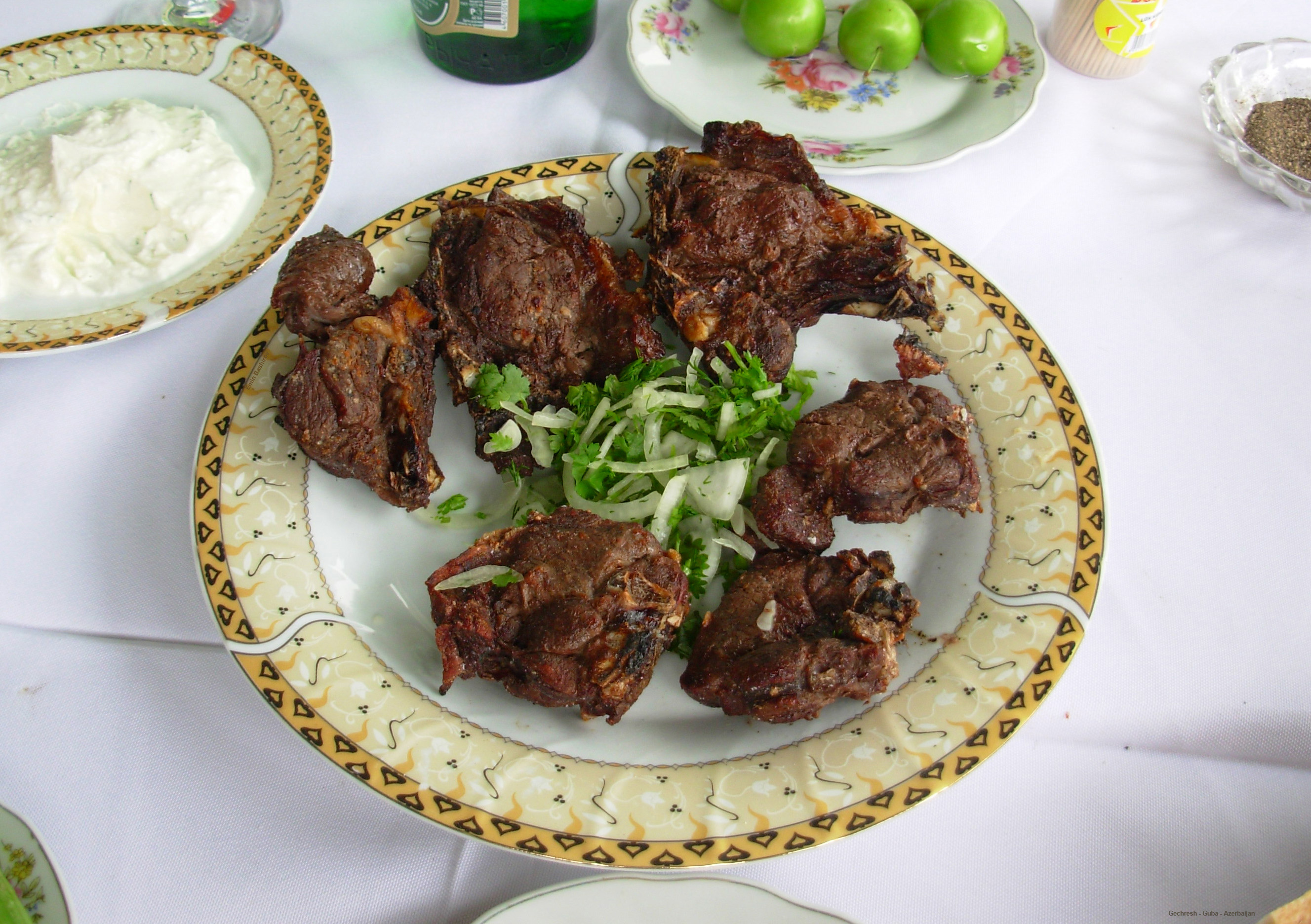 Kebab, Azerbaijani cuisine, (Gechresh, Guba)